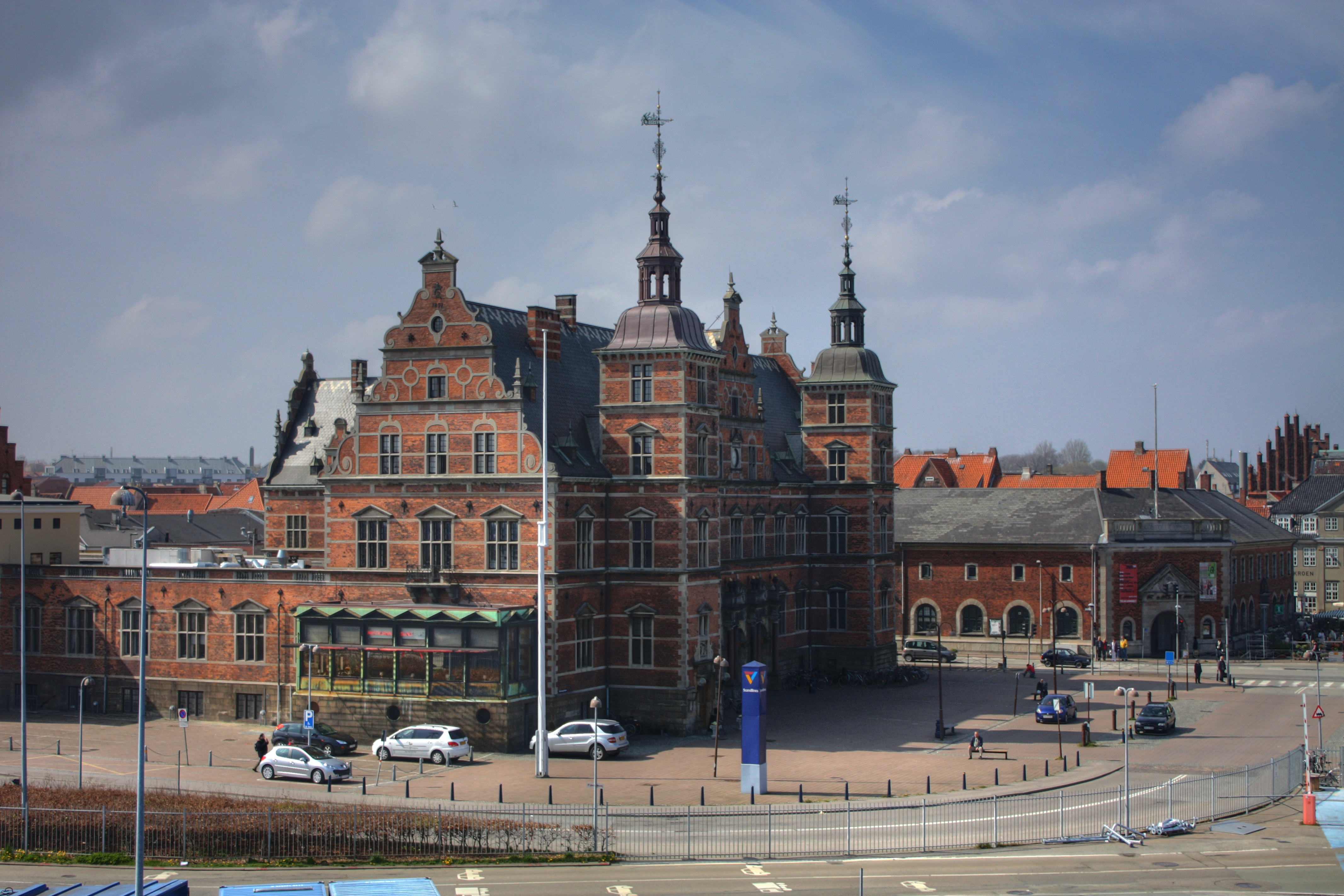 The danish train station in Helsingør. HDR photo using three different exposures.